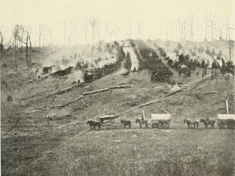 150th Pennsylvania Infantry maneuvering approximately 3 weeks before the Battle of Chancellorsville, 1863.